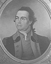 American Revolutionary War General John Sullivan